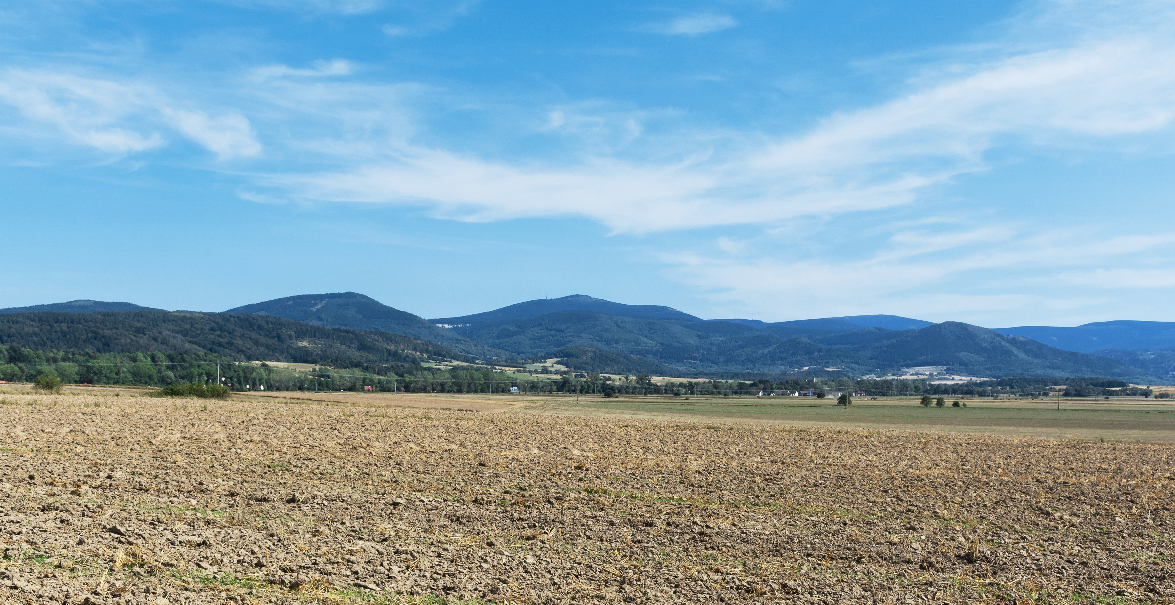 Śnieżnik Mountains, Sudetes